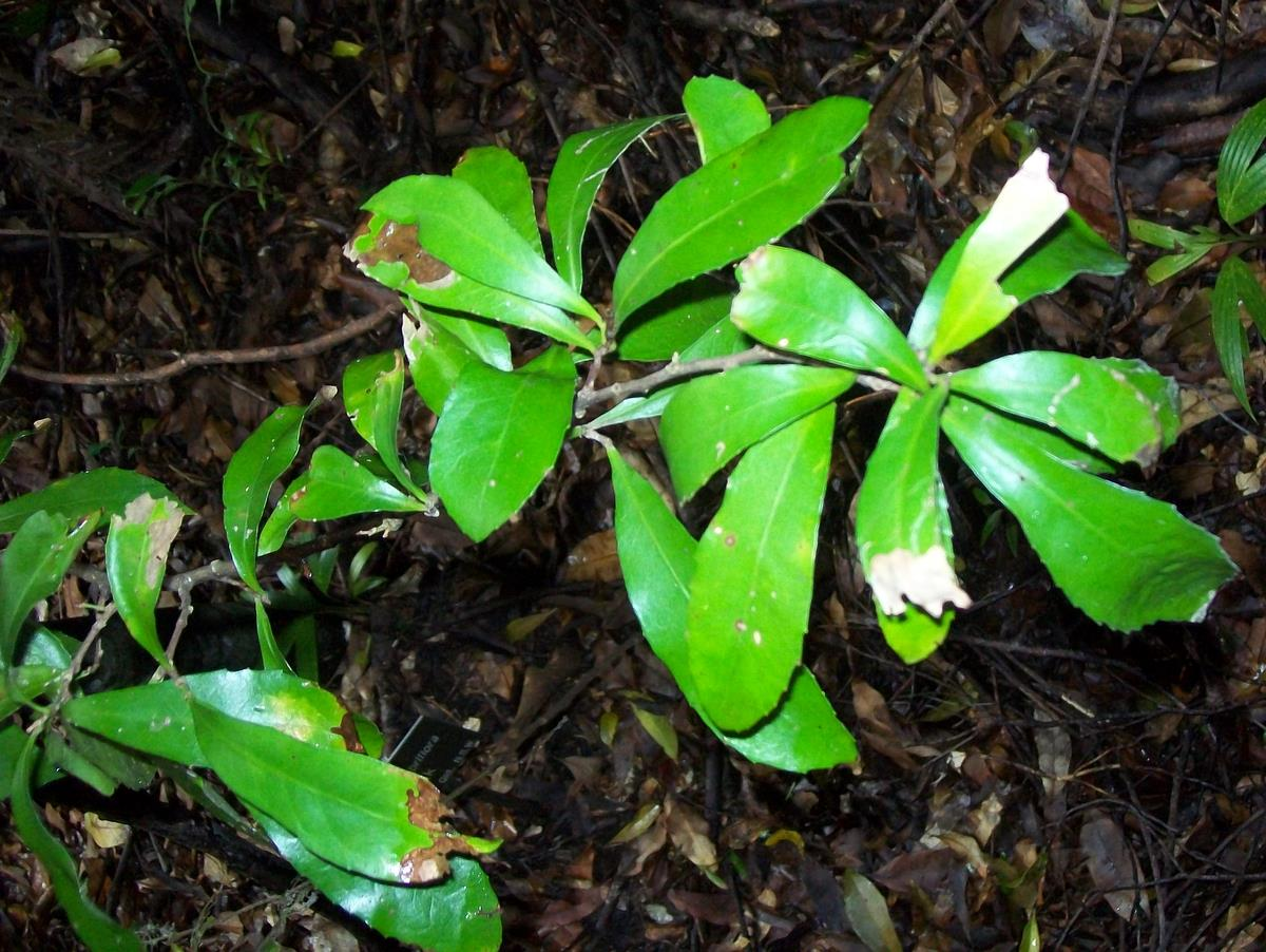 Helicia glabriflora at Coffs Harbour Botanic Gardens